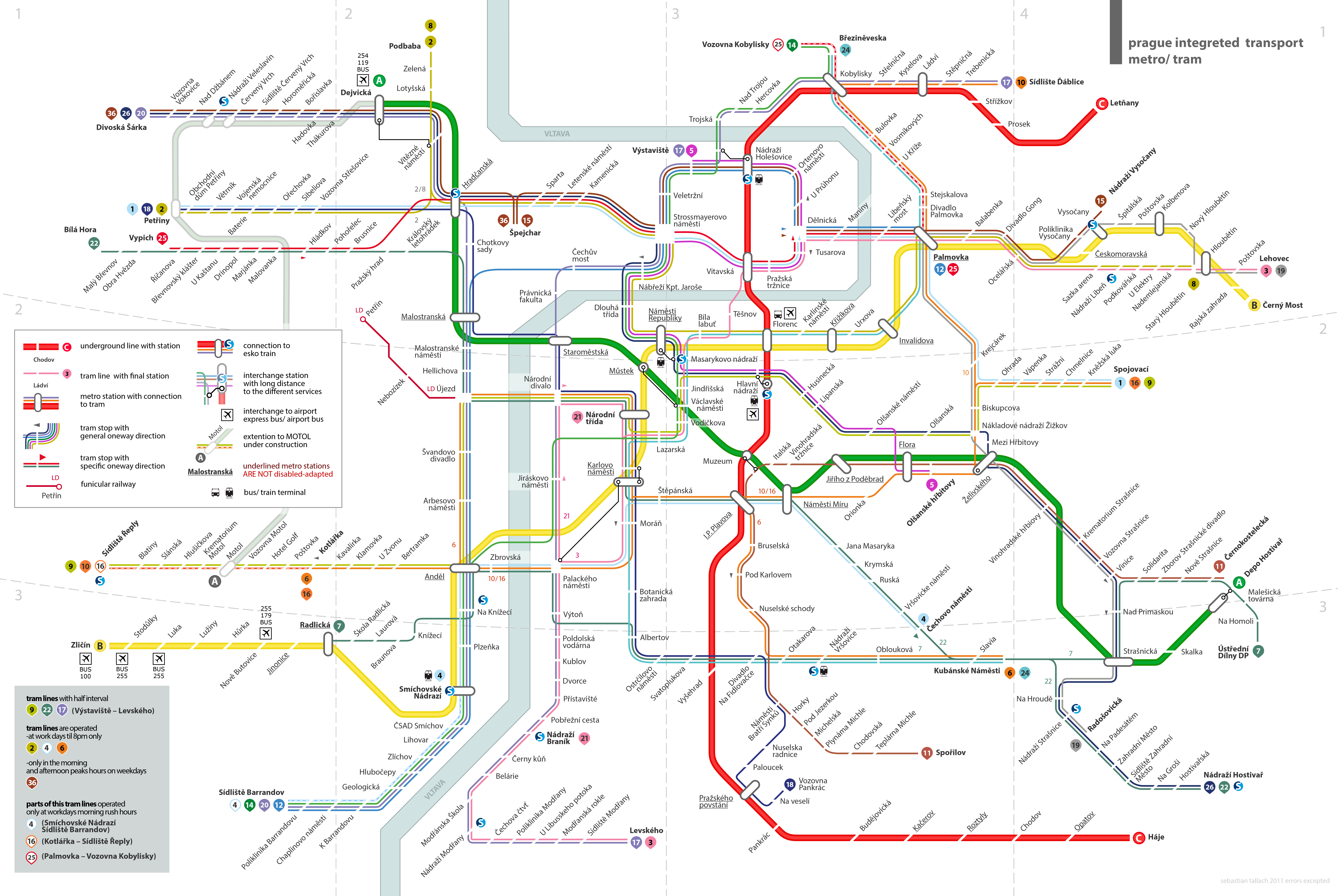 prague integrated transport metro / tram